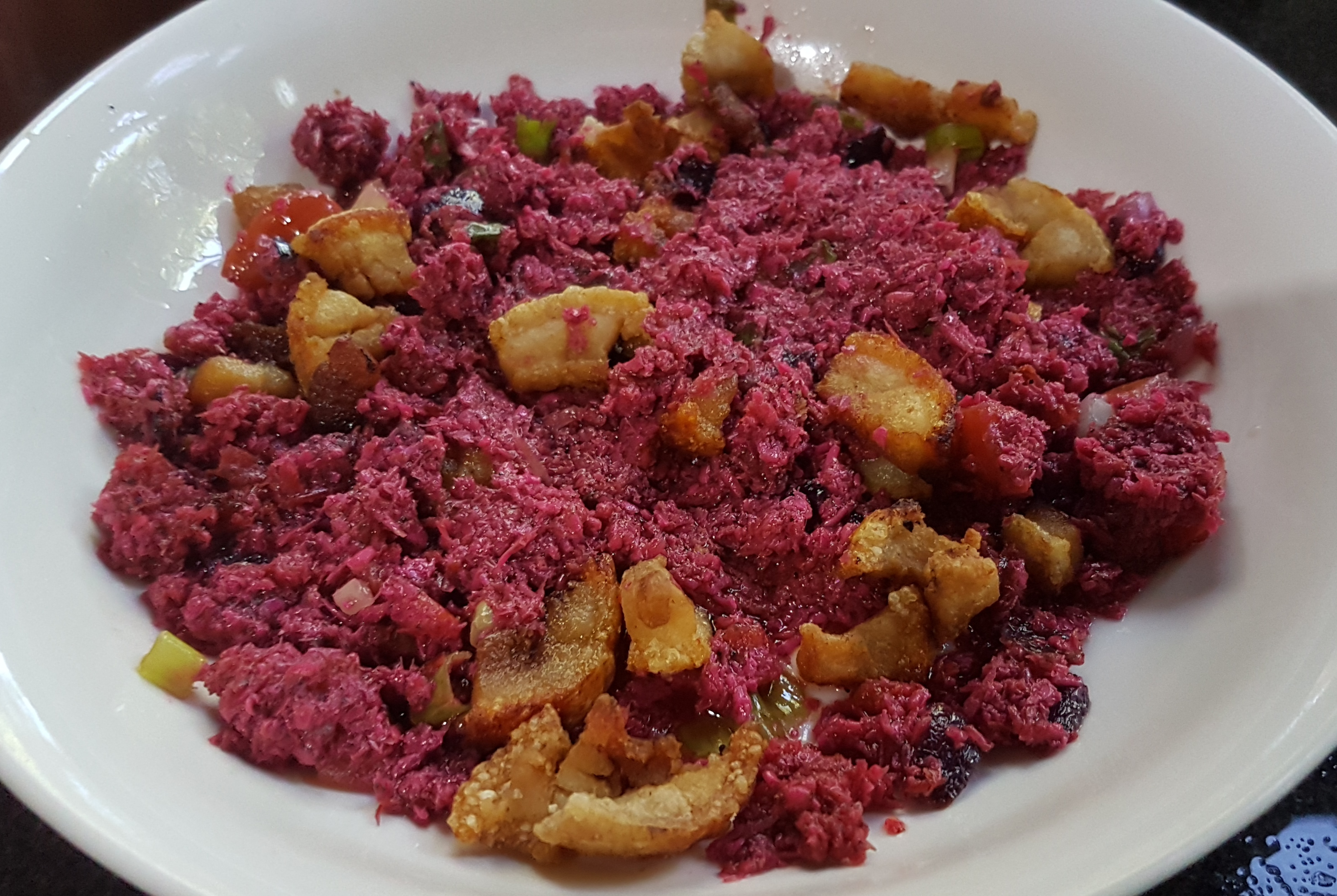 Ginisang alamang (sauteed shrimp paste with pork chicharon)